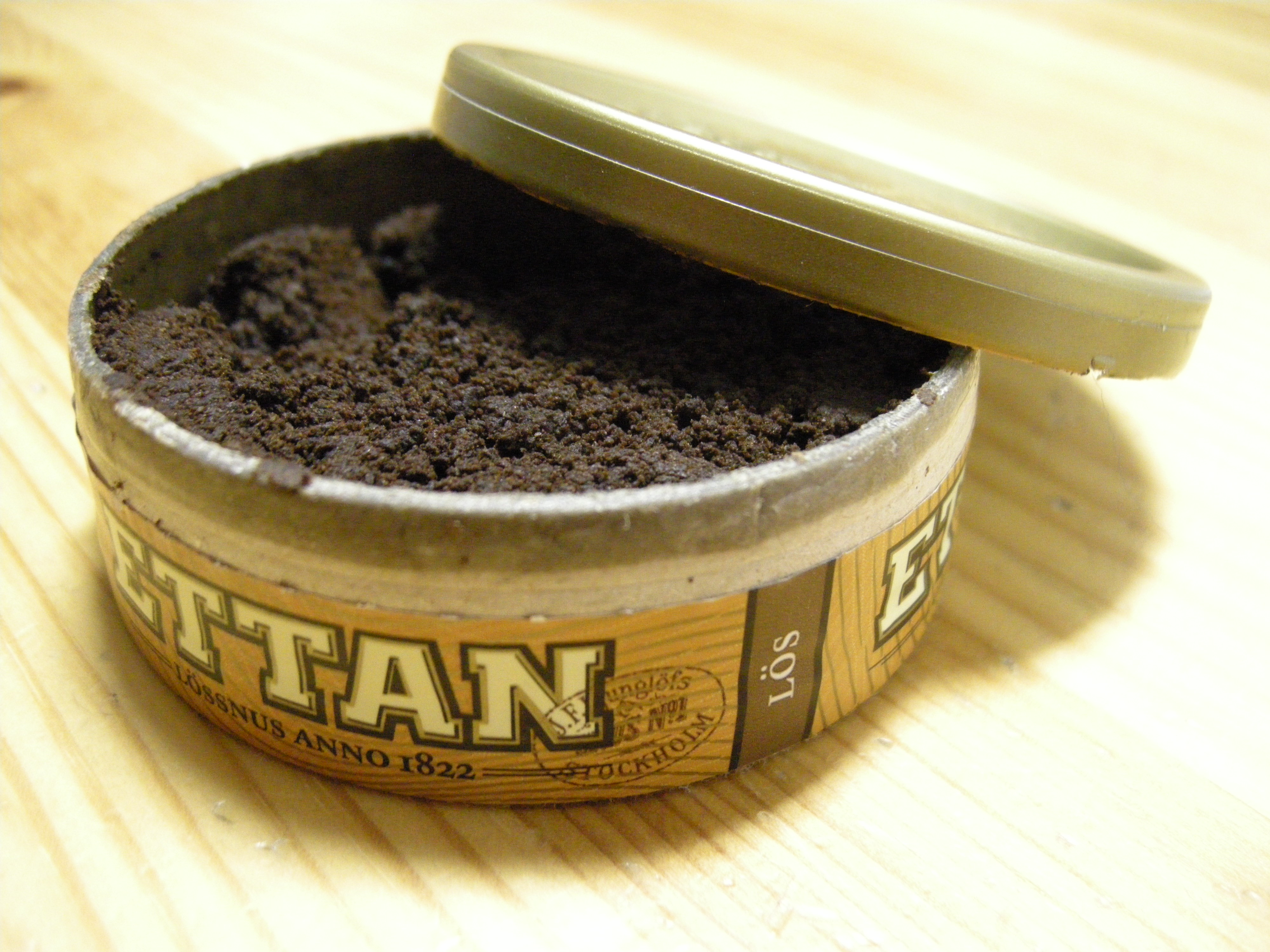 bulk snuff